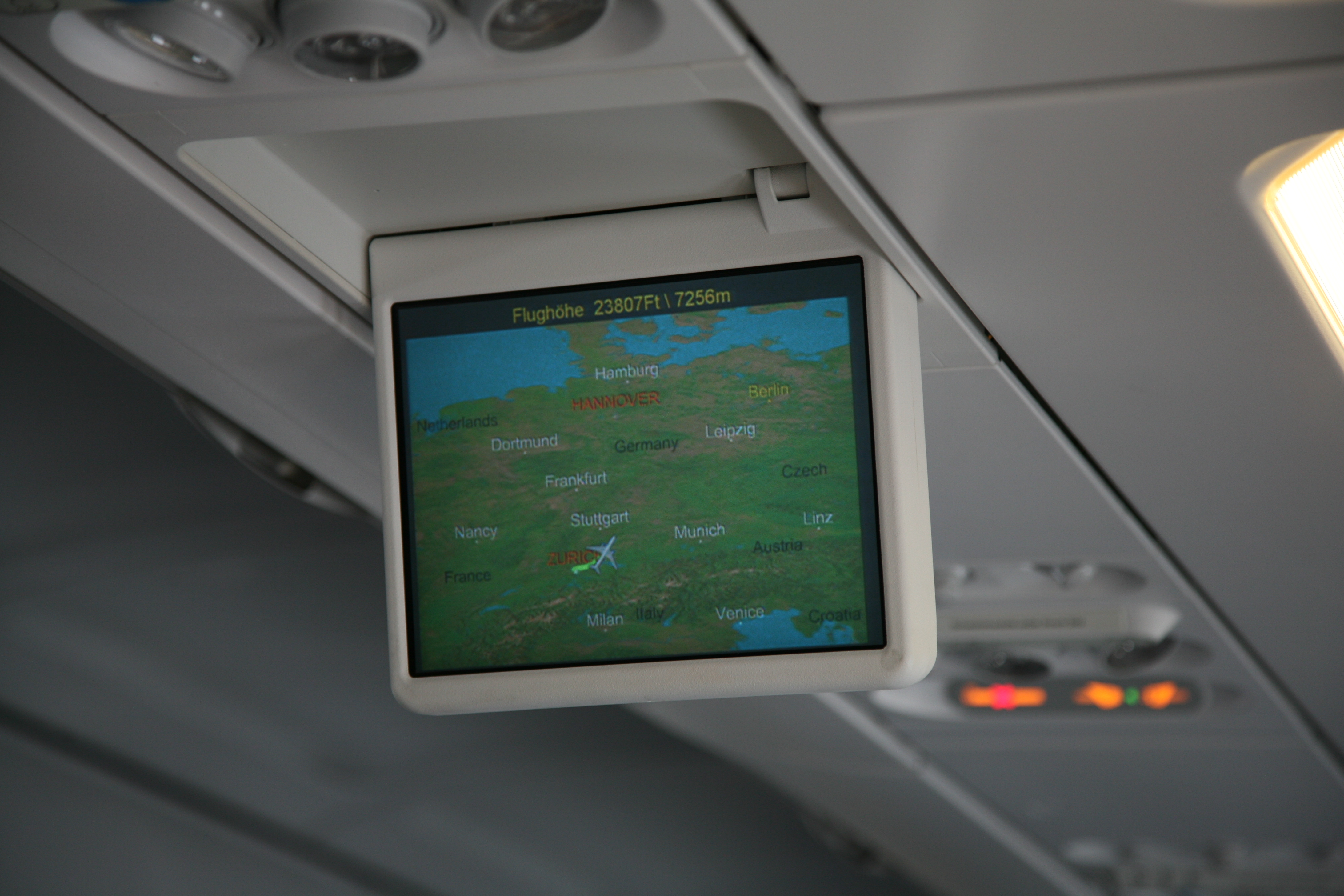 In-flight information system in the passenger compartment of an airplane.